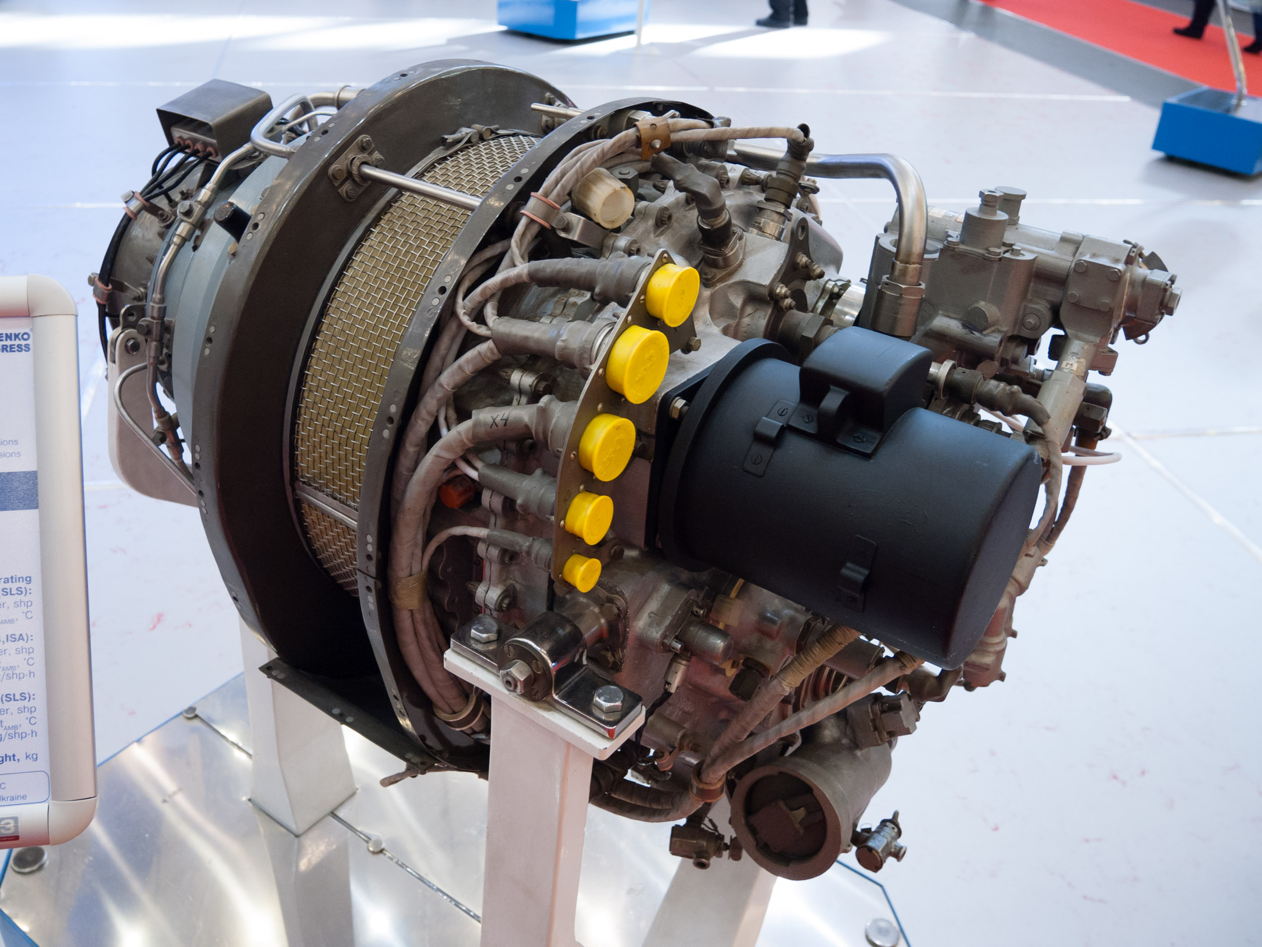 Motor Sich AI-450 engine for light helicopters, 'Zbroya ta Bezpeka' military fair, Kyiv, Ukraine, 2018